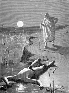 Odin stands by Mímir's beheaded body.